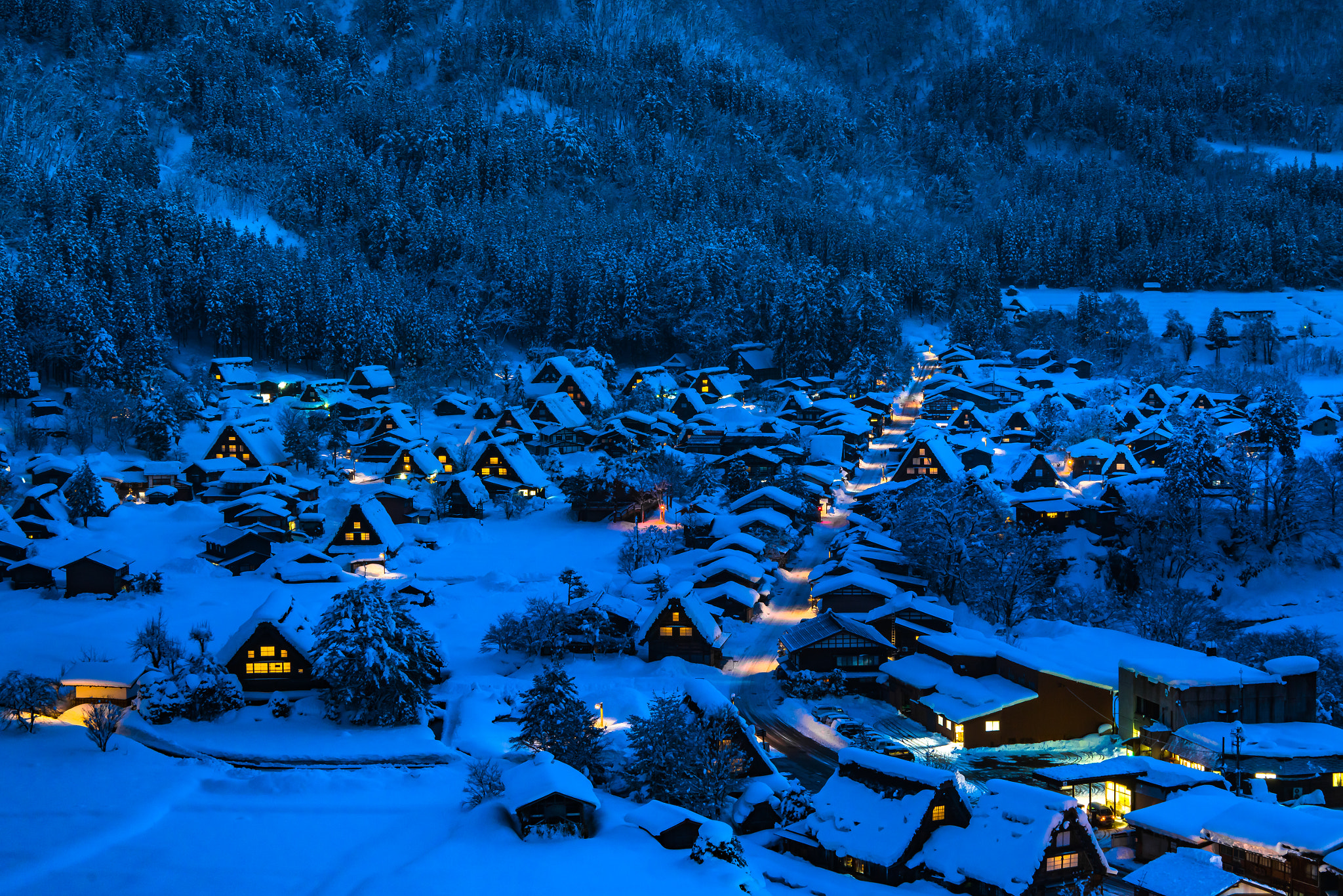 500px provided description: SHIRAKAWA-GO???????? Shot from Shirakawago Observatory. [#night ,#japan ,#snow ,#heritage ,#gifu ,#shirakawago ,#worldheritage ,#???]